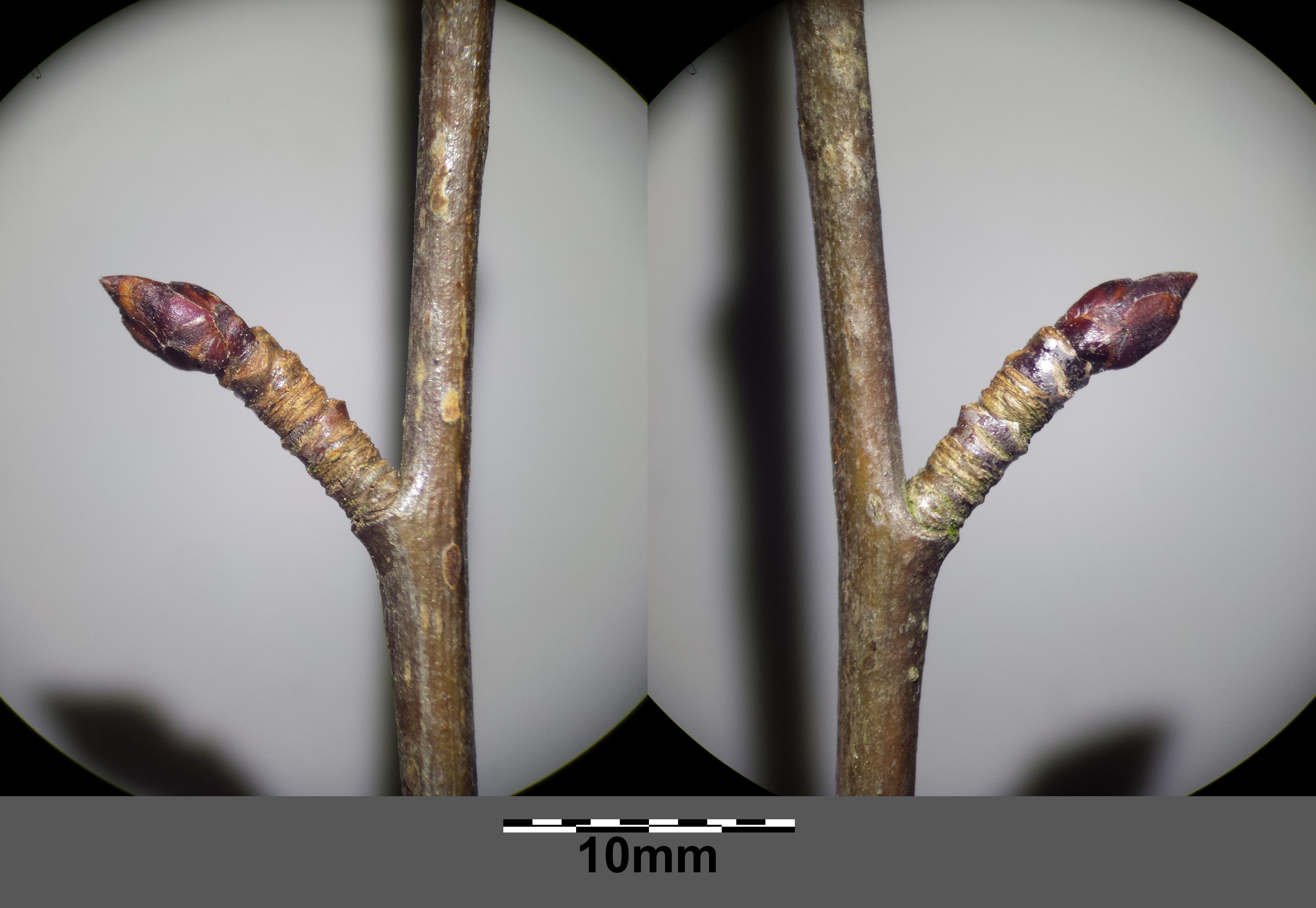 Bud on short shoot Taxonym: Malus sylvestris ss Fischer et al. EfÖLS 2008 ISBN 978-3-85474-187-9 Location: Rohrwald, district Korneuburg, Lower Austria - ca. 300 m a.s.l. Habitat: Carpinion betuli